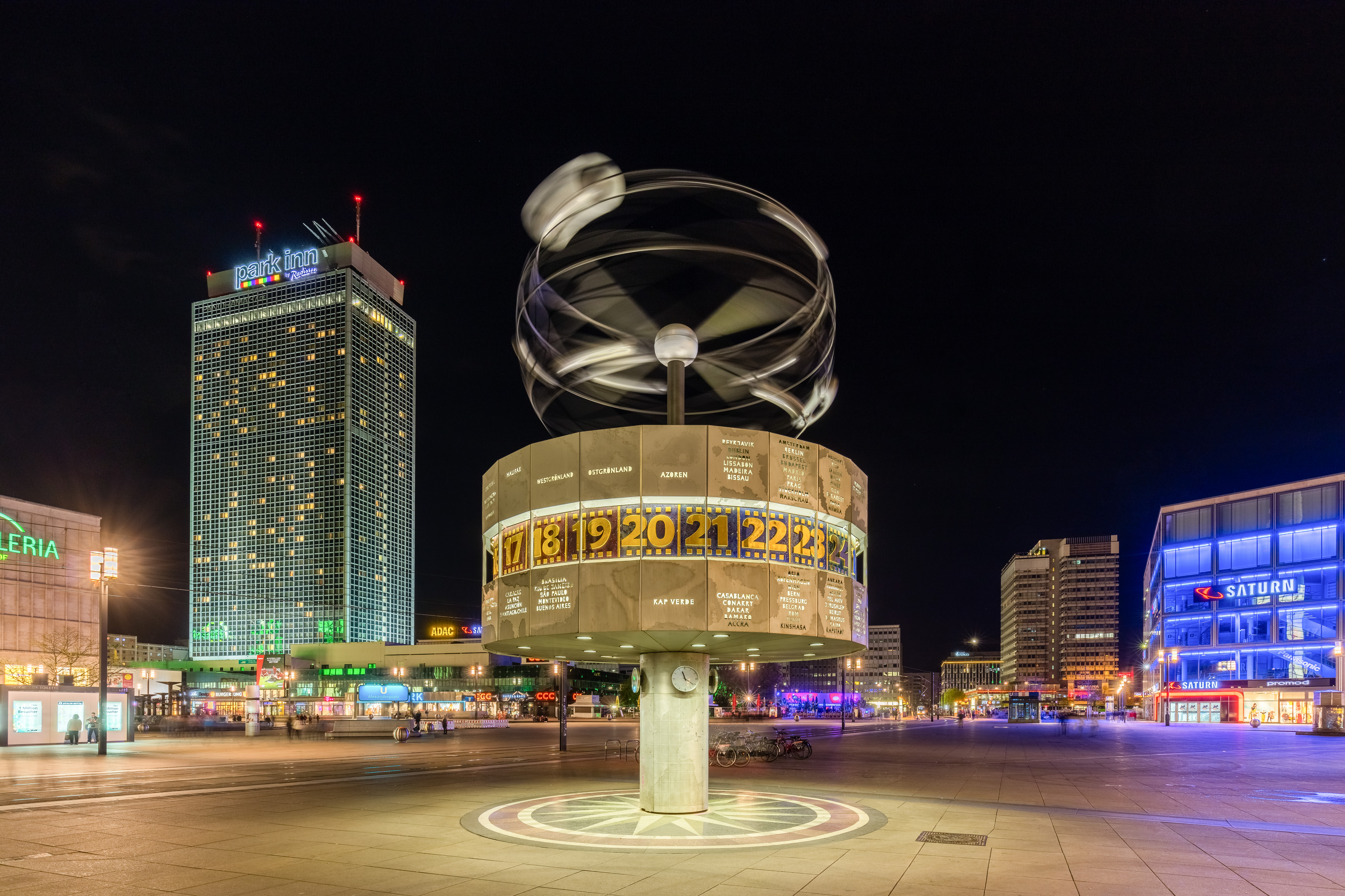 Night view of the World Clock (Urania-Weltzeituhr), Alexanderplatz, Berlin, Germany. The 10 metres (33 ft)-high clock shows the time in 148 cities worldwide and was inaugurated in 1969. The clock has become one of the symbols of Berlin and is a popular meeting point for the people in the capital.